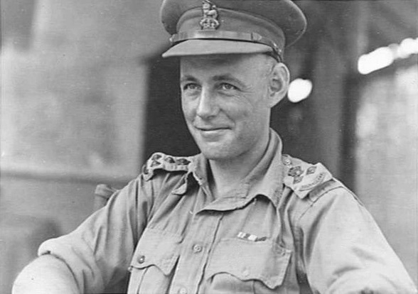 Raymond Sandover in Lae, New Guinea, in 1944